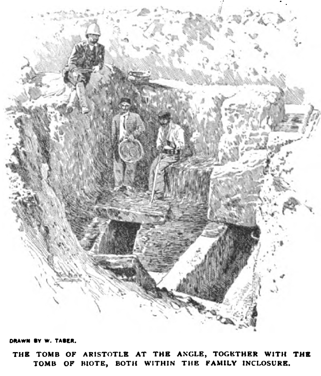 This image is from The Century Illustrated Monthly Magazine 44 (new series 22) (May-October 1892), pp. 414-426. It depicts excavations conducted by the American School of Classical Studies in Athens that purported to find the tomb of Aristotle in Eretria.